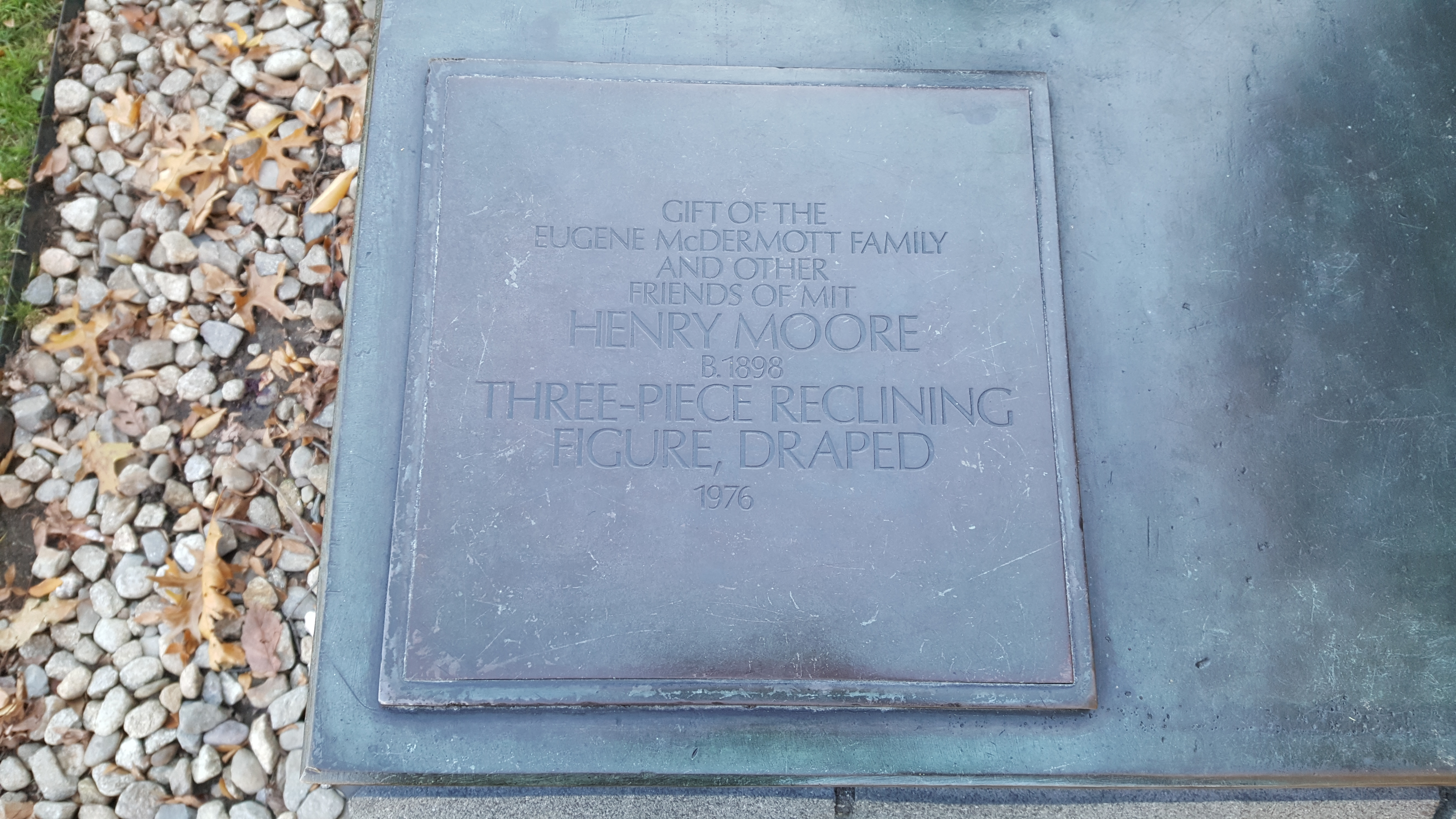 Cambridge, MA (2019)